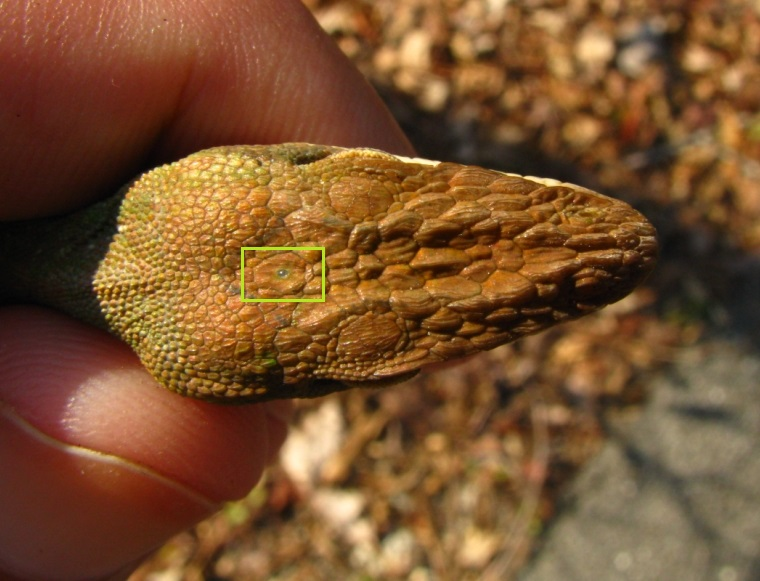 Dorsal view of the head of an Anolis carolinensis clearly showing the parietal eye